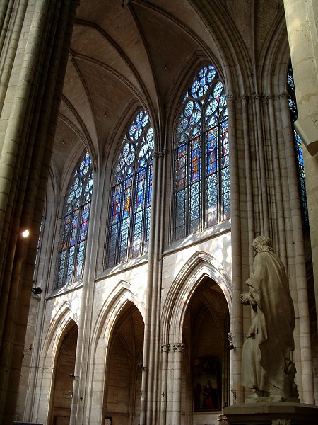 Troyes - Basilique Saint-Urbain - Elévation de la nef